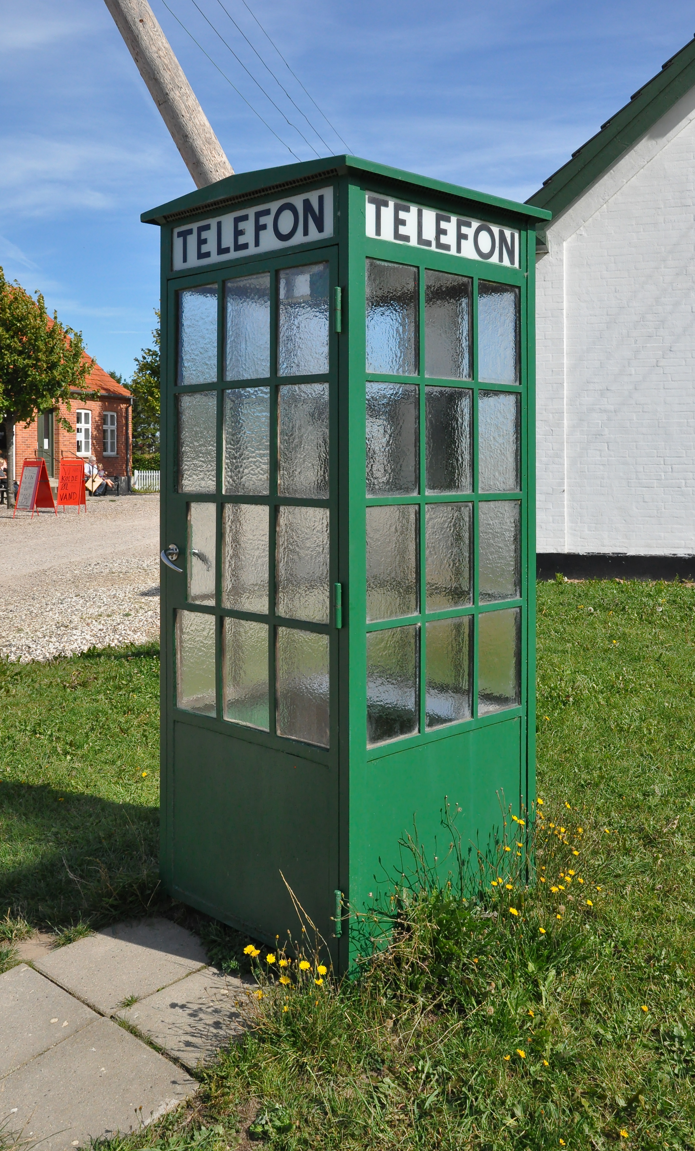 A telephone booth in the co-operative village of Nyvang, Denmark.